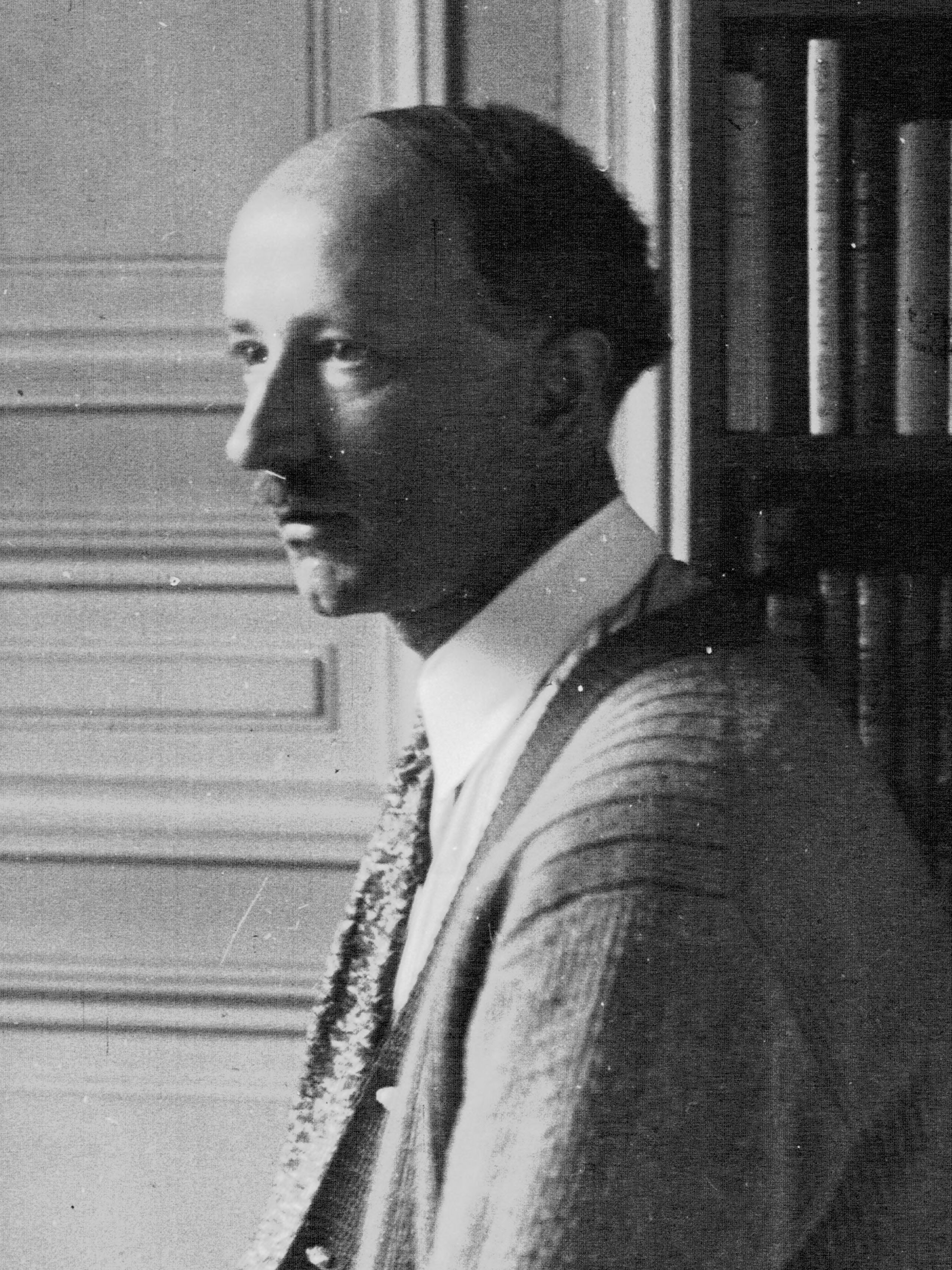 French writer Maurice Bedel (1883-1954).